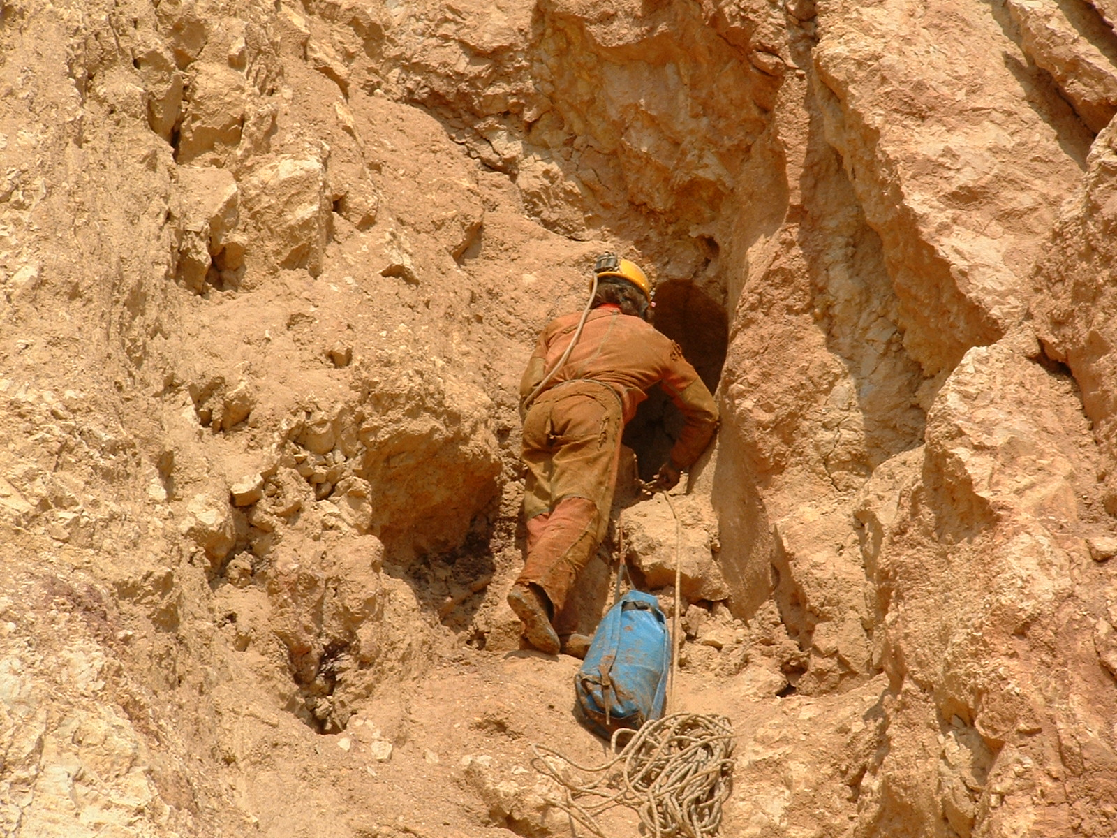 Entrance of Nincskegyelem-aknabarlang